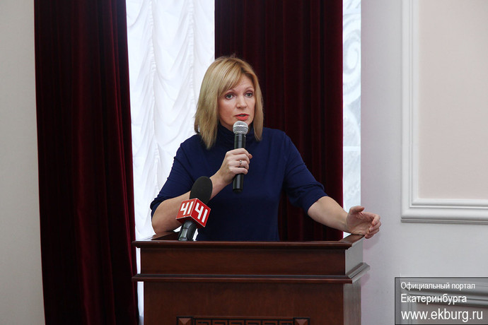 Людмила Фитина